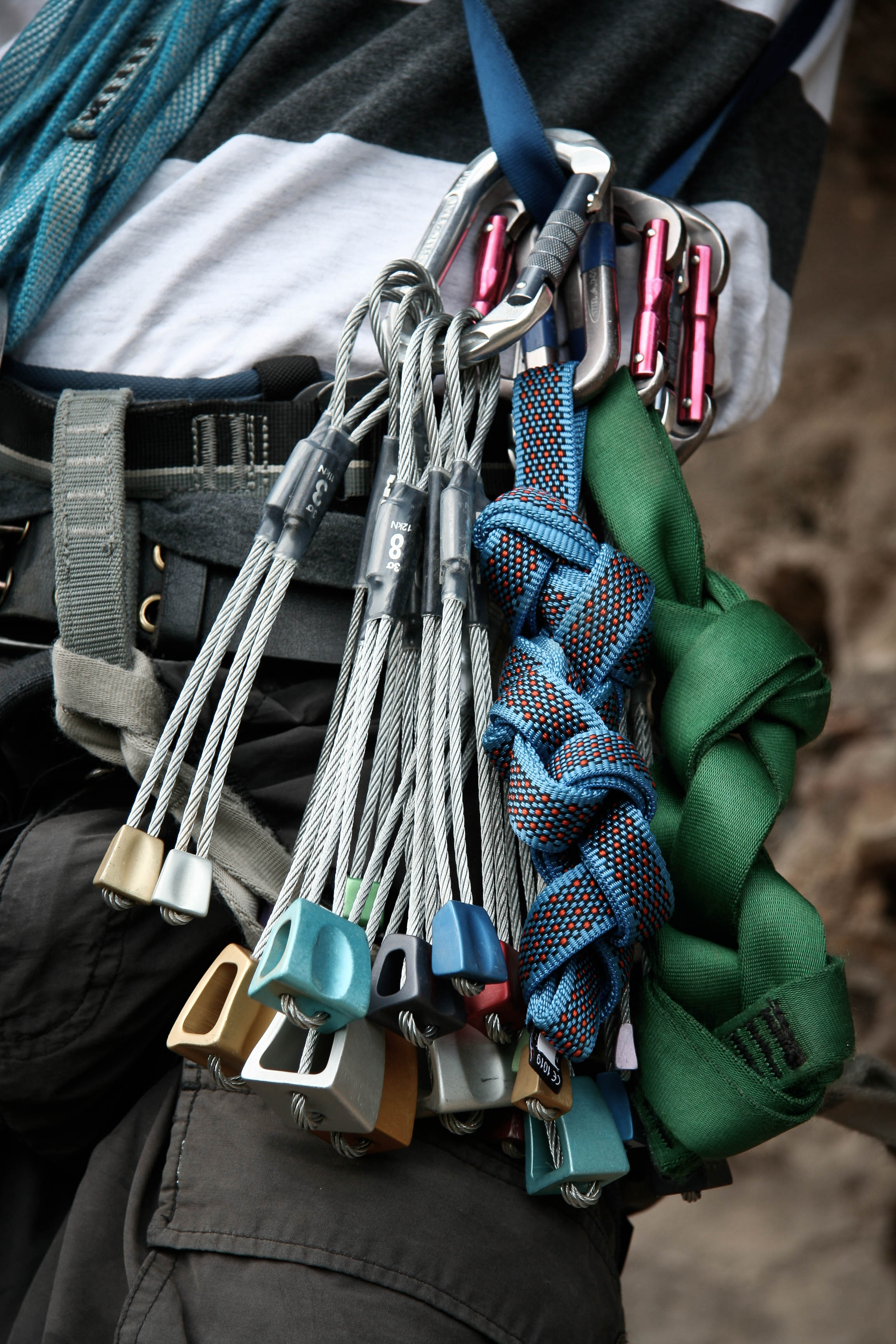 Pete had a selection of brand new climbing gear that he needed to scratch up a bit at Redcliffs.